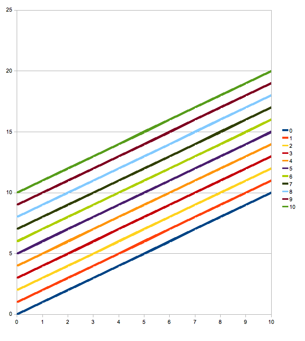 Addition of numbers 0-10. Line labels = first number. X axis = second number. Y axis = sum.